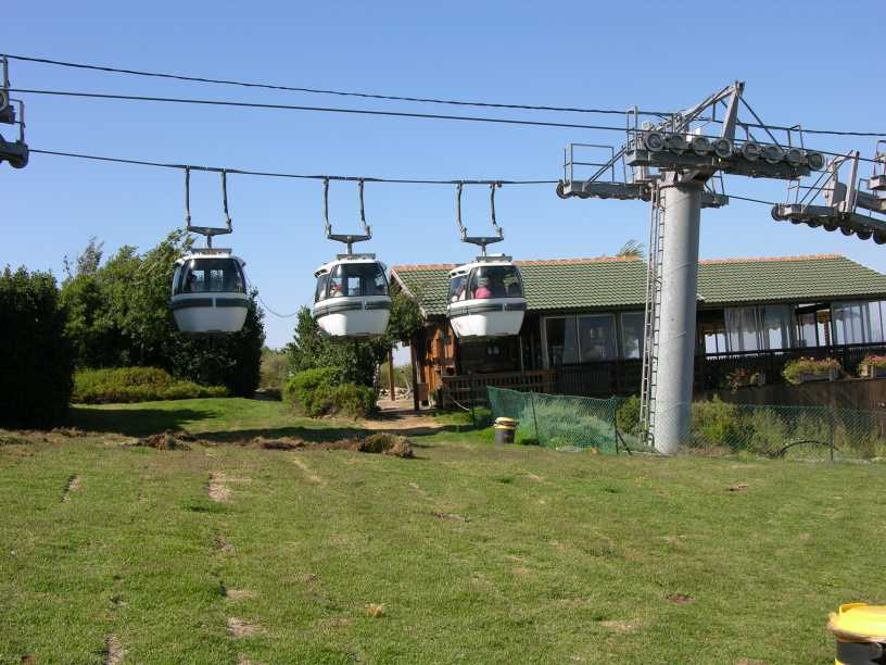 Cable car from Kiryat Shmona up to the Manara cliffs (June 2007)